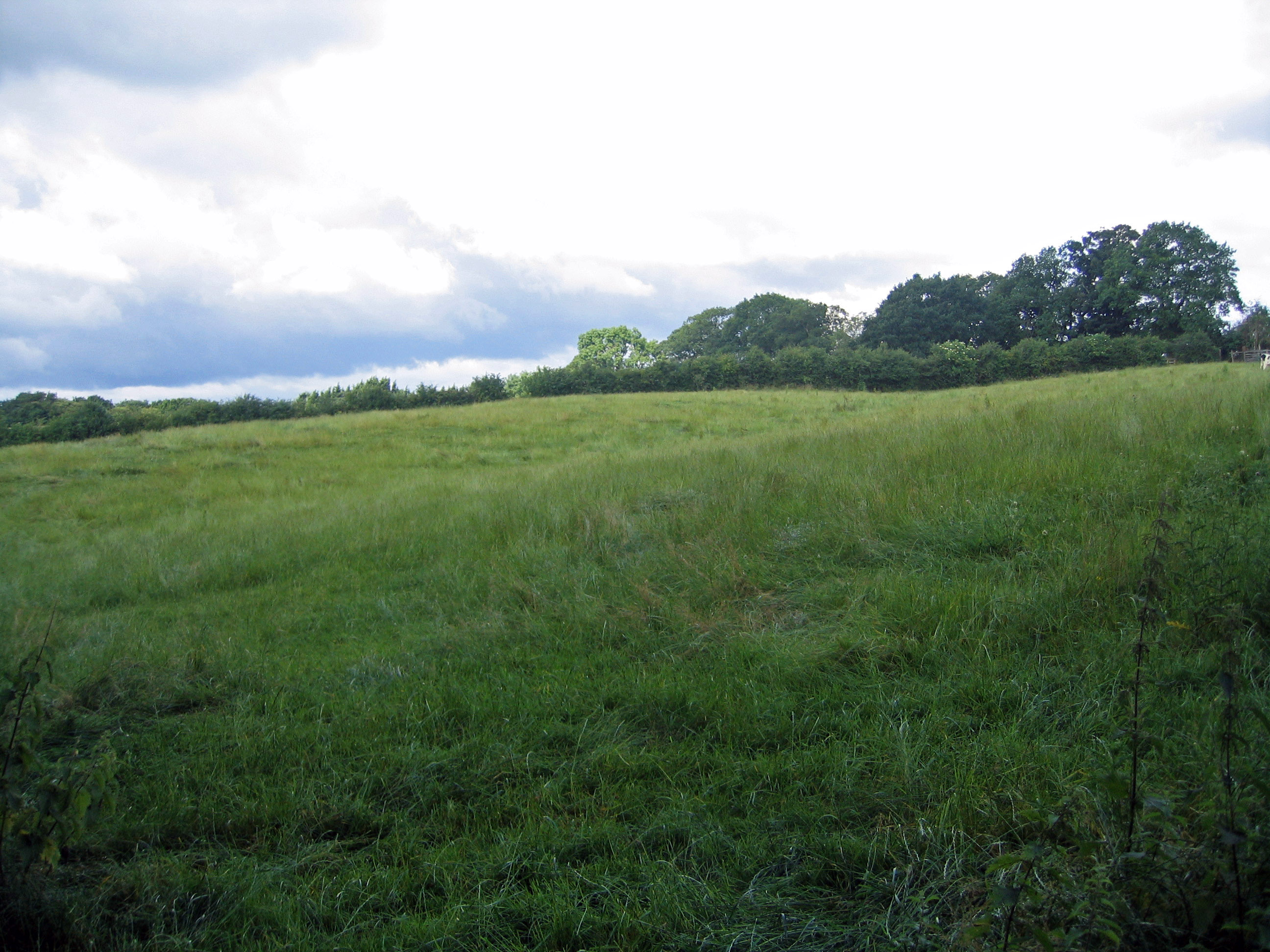 Atlas of Hillforts 3188 Photograph of a field on the western aspect of Kelsborrow Castle showing ridges and dips, formerly the ramparts of the hill fort.